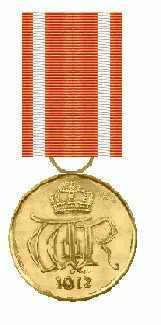 Prussian Civil Award